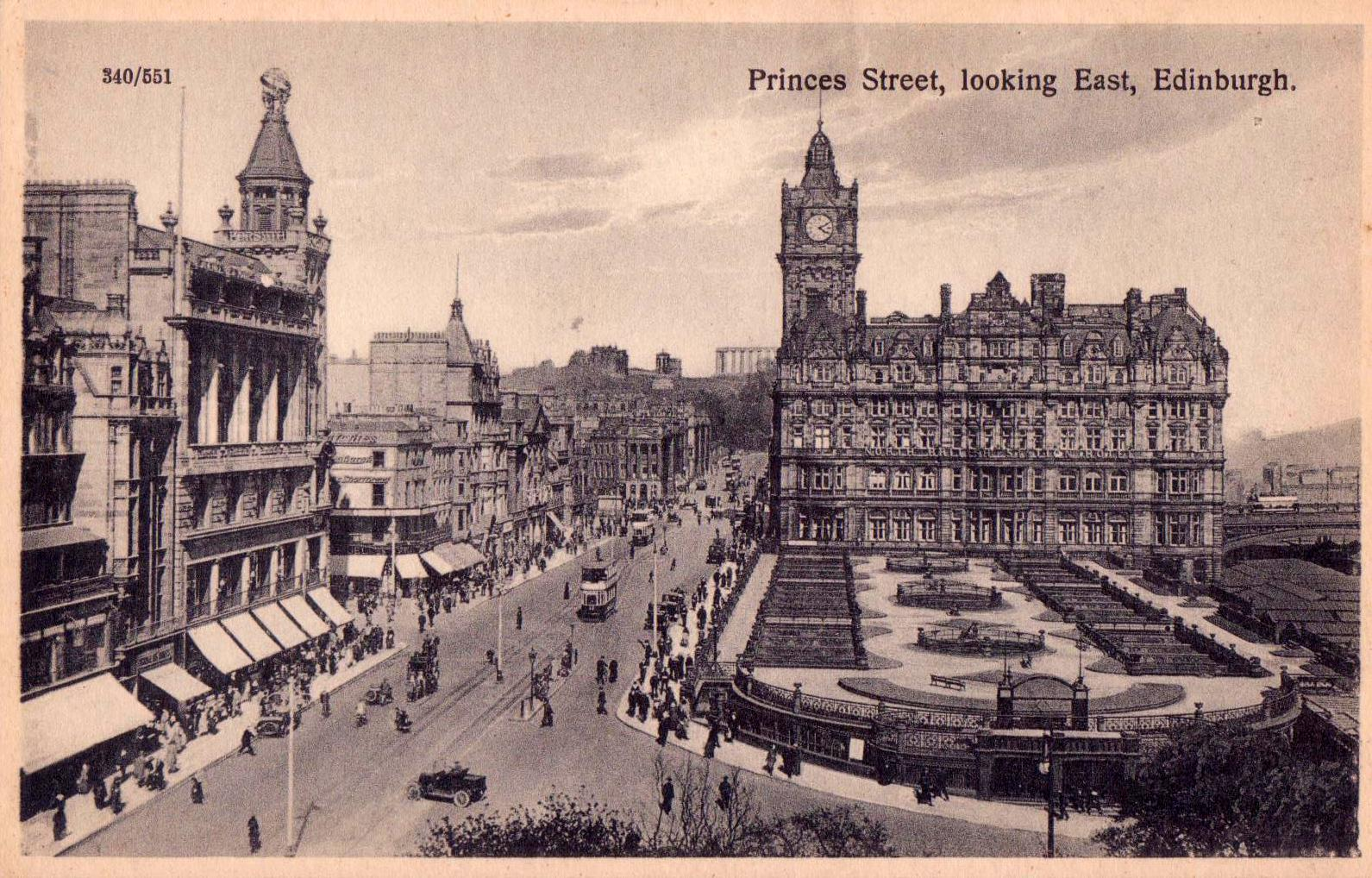 Edinburgh. Princes Street, looking East. Postcard, circa 1910-1915. Publisher: William Ritchie & Sons Ltd. Edinburgh.